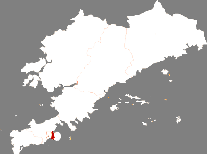 Location of Xigang district in Dalian City, China